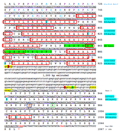 duh